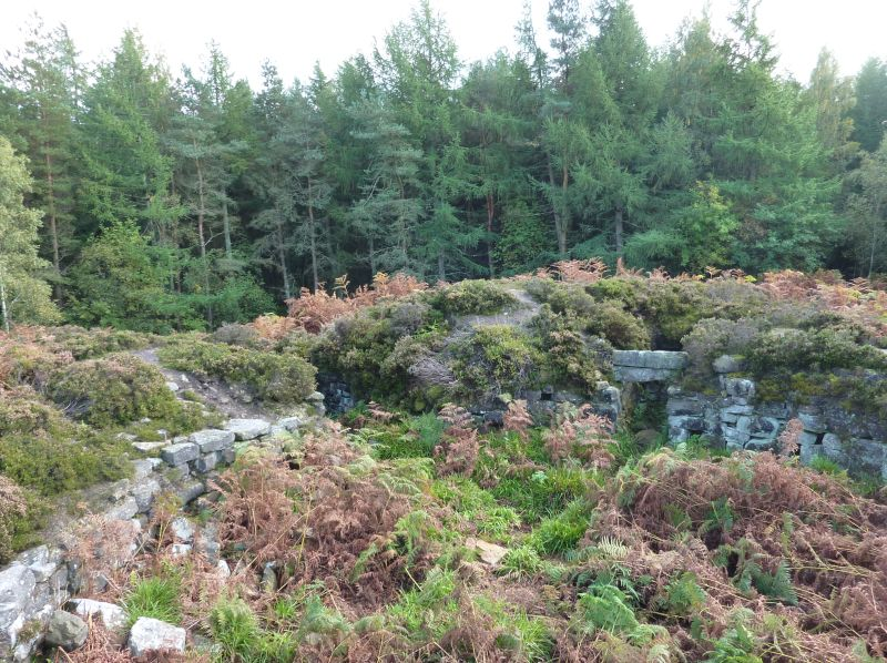 Tappoch Broch, Torwood, Stirlingshire, Scotland